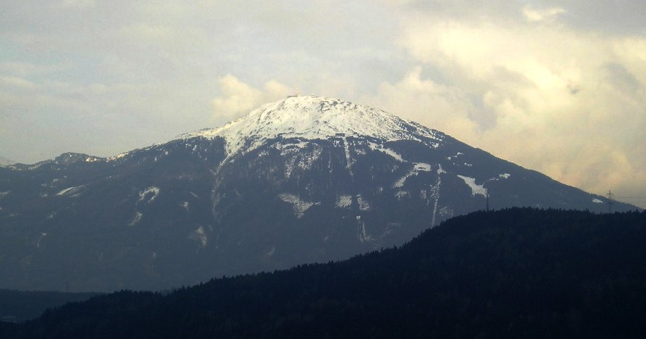 The mountain Patscherkofel, above Innsbruck, Austria